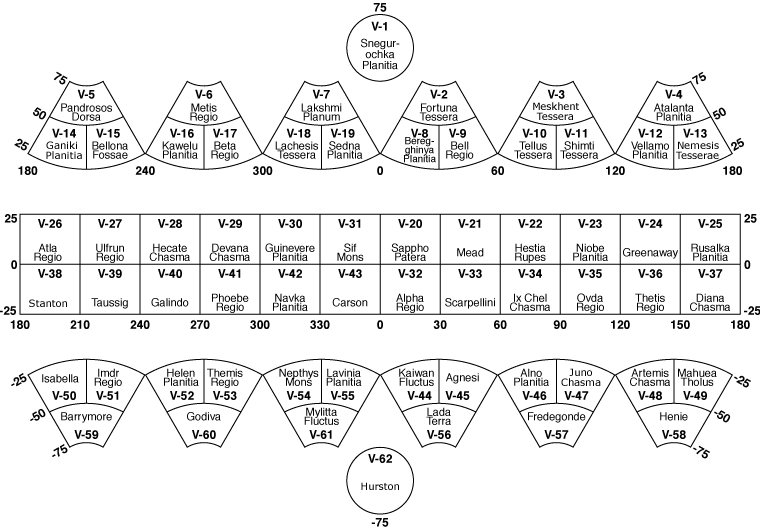 schematic diagram showing the arrangement of the planet Venus' map quadrangles